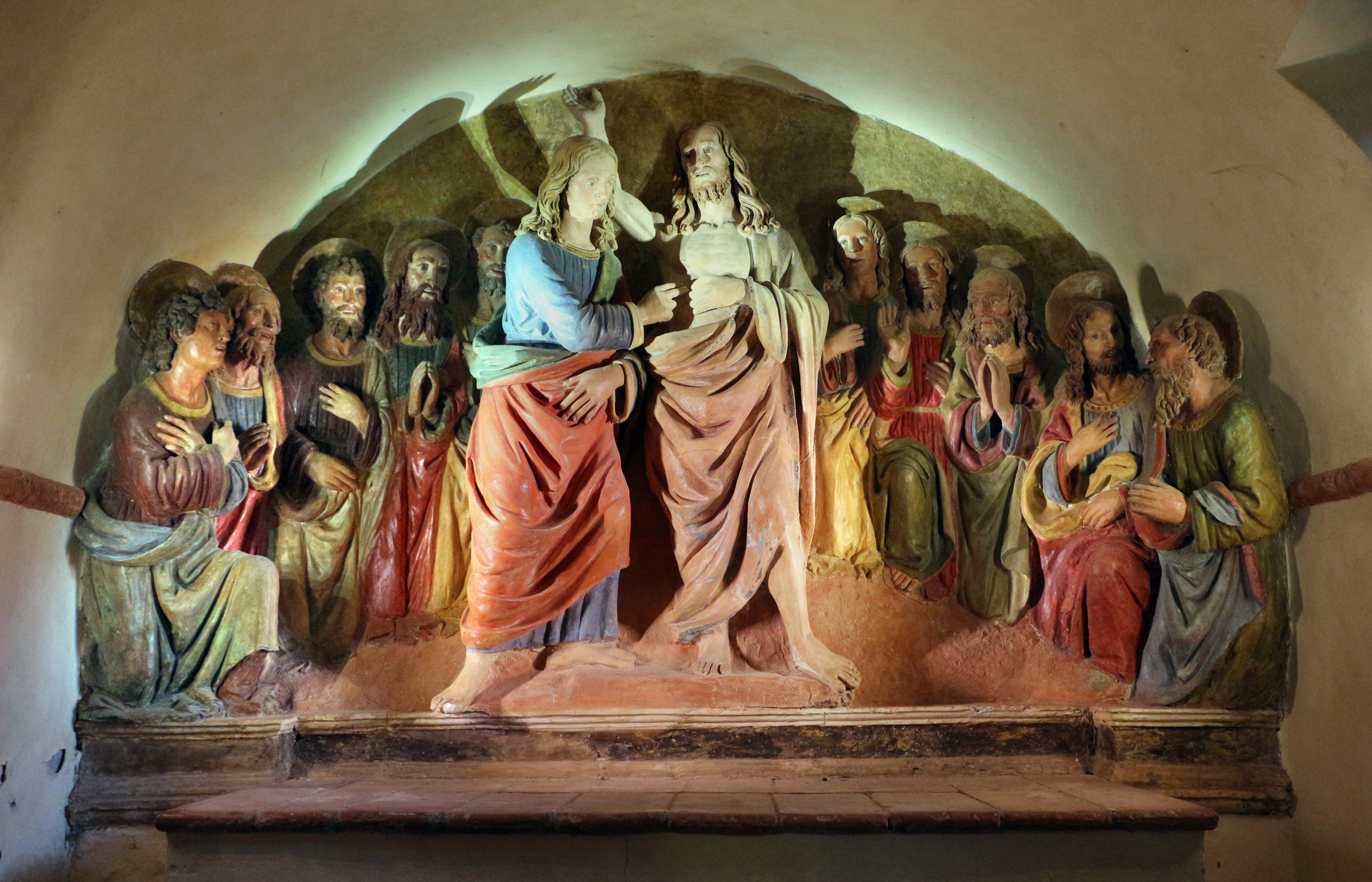 San Vivaldo Sacro Monte